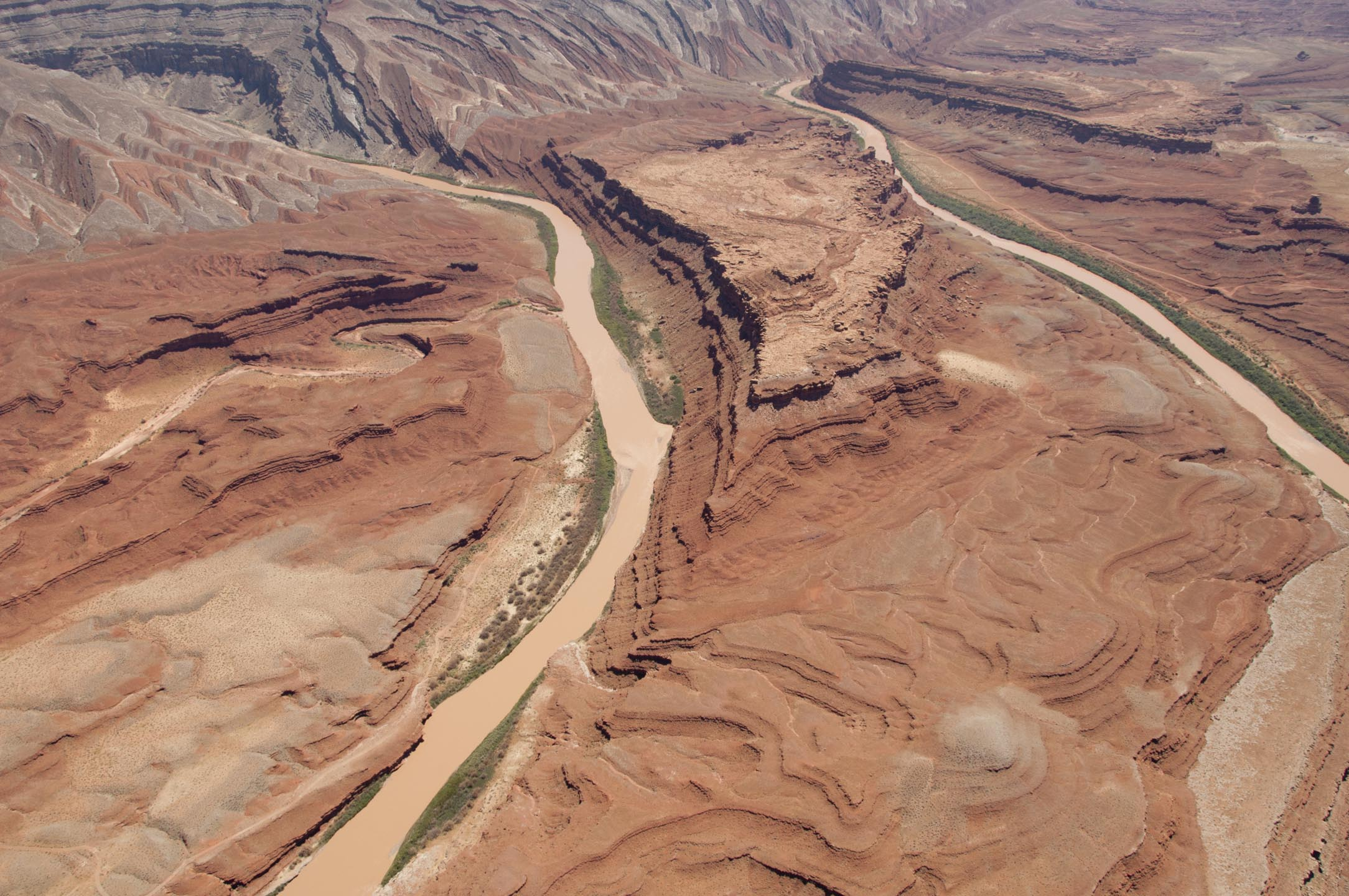 San Juan River canyons in Utah, just east of U.S. Route 163